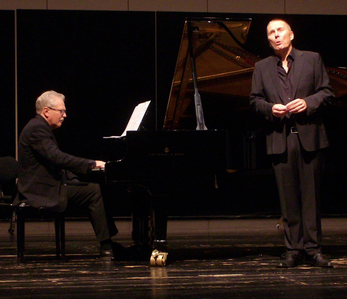 The Lied Duo Peter Nelson (piano) and Andreas Reibenspies (singer) at a recital, performing songs by Hugo Wolf, at the music conservatory of Trossingen, Germany.